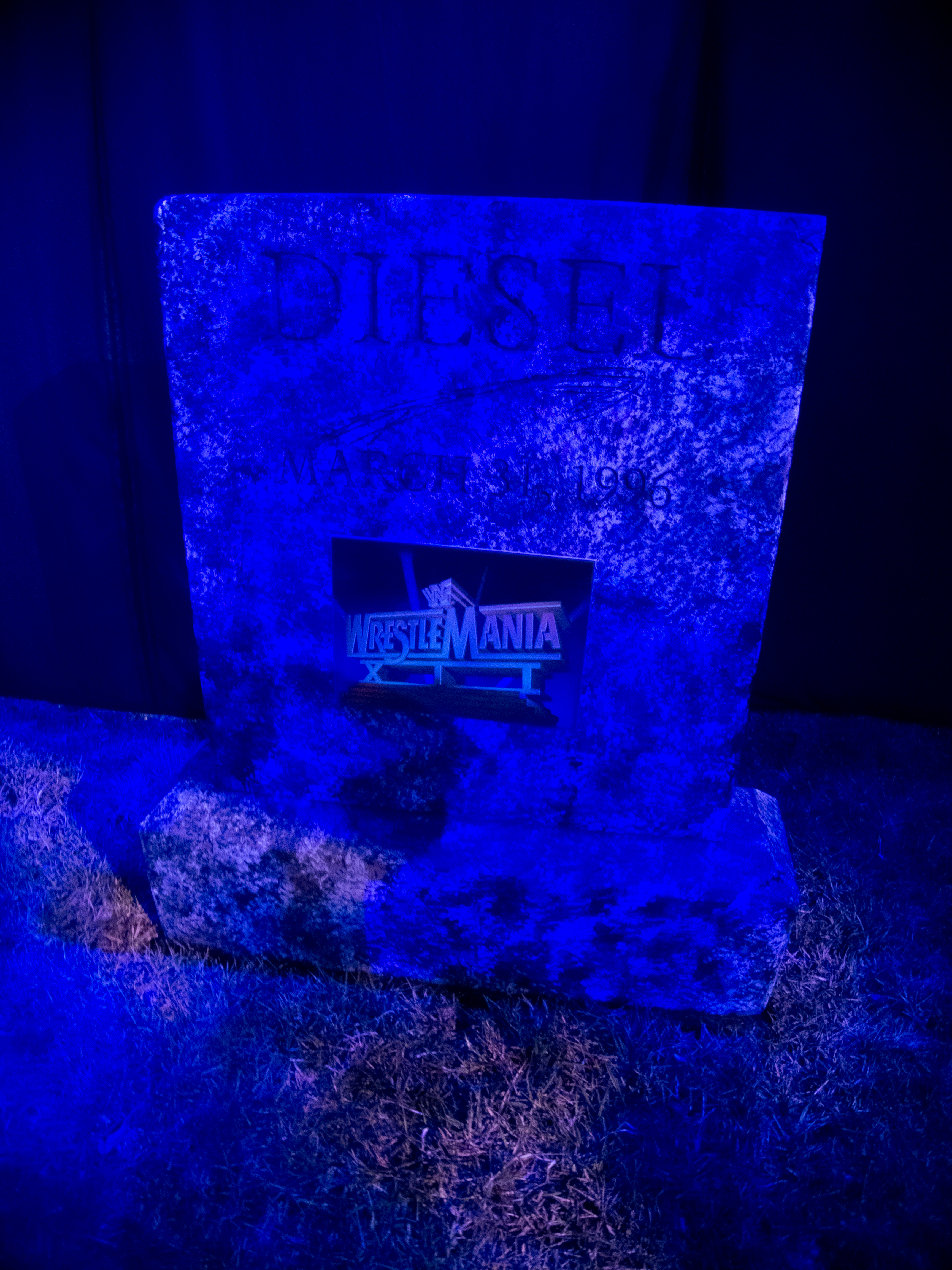 The Undertaker's Graveyard @ Axxess